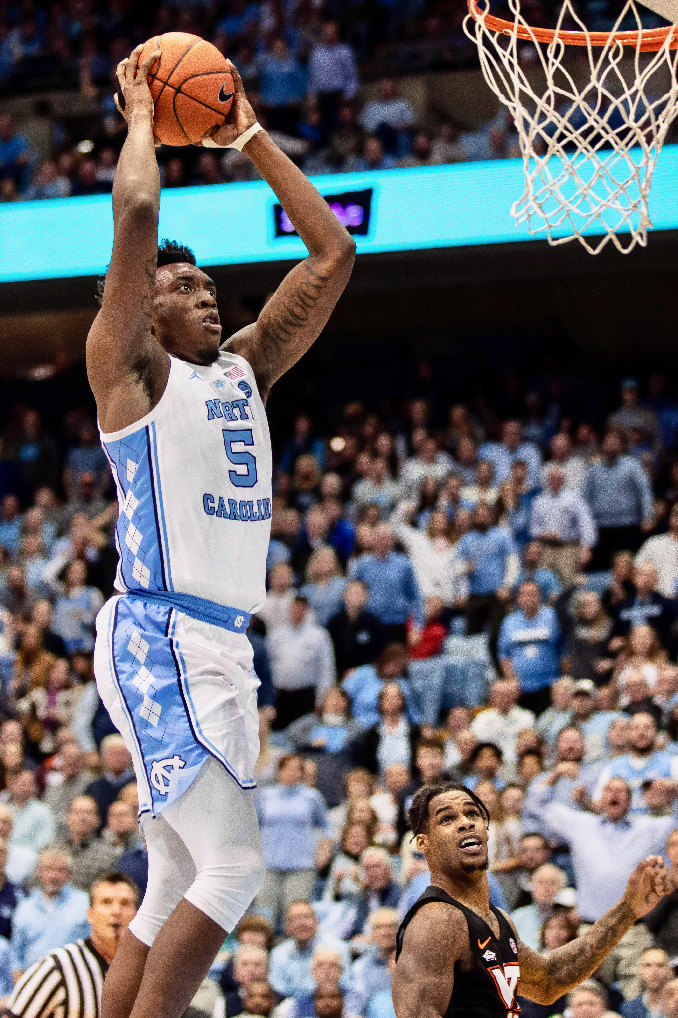 Nassir Little dunks the ball.